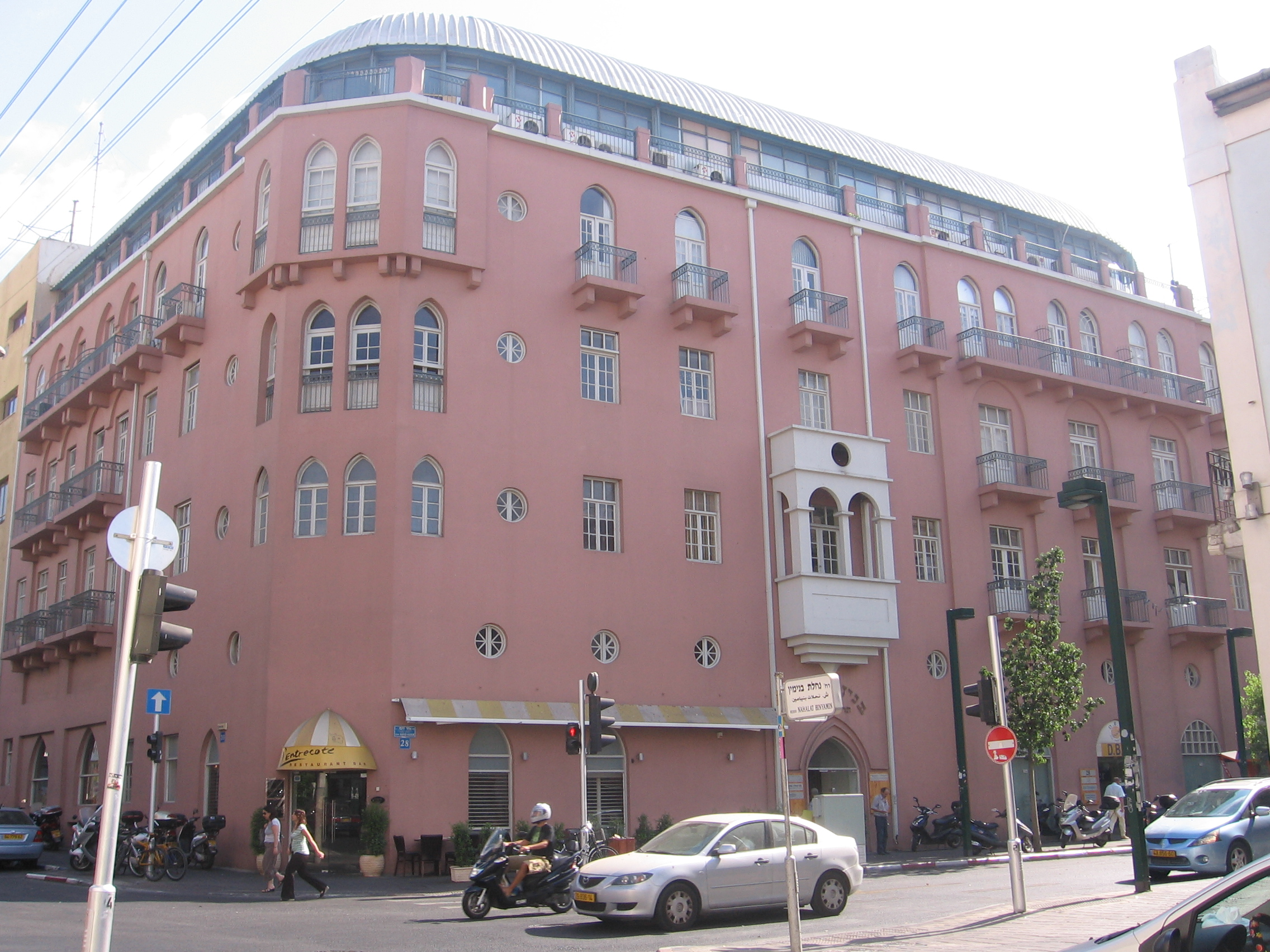 Palatin (former) Hotel in Tel Aviv.